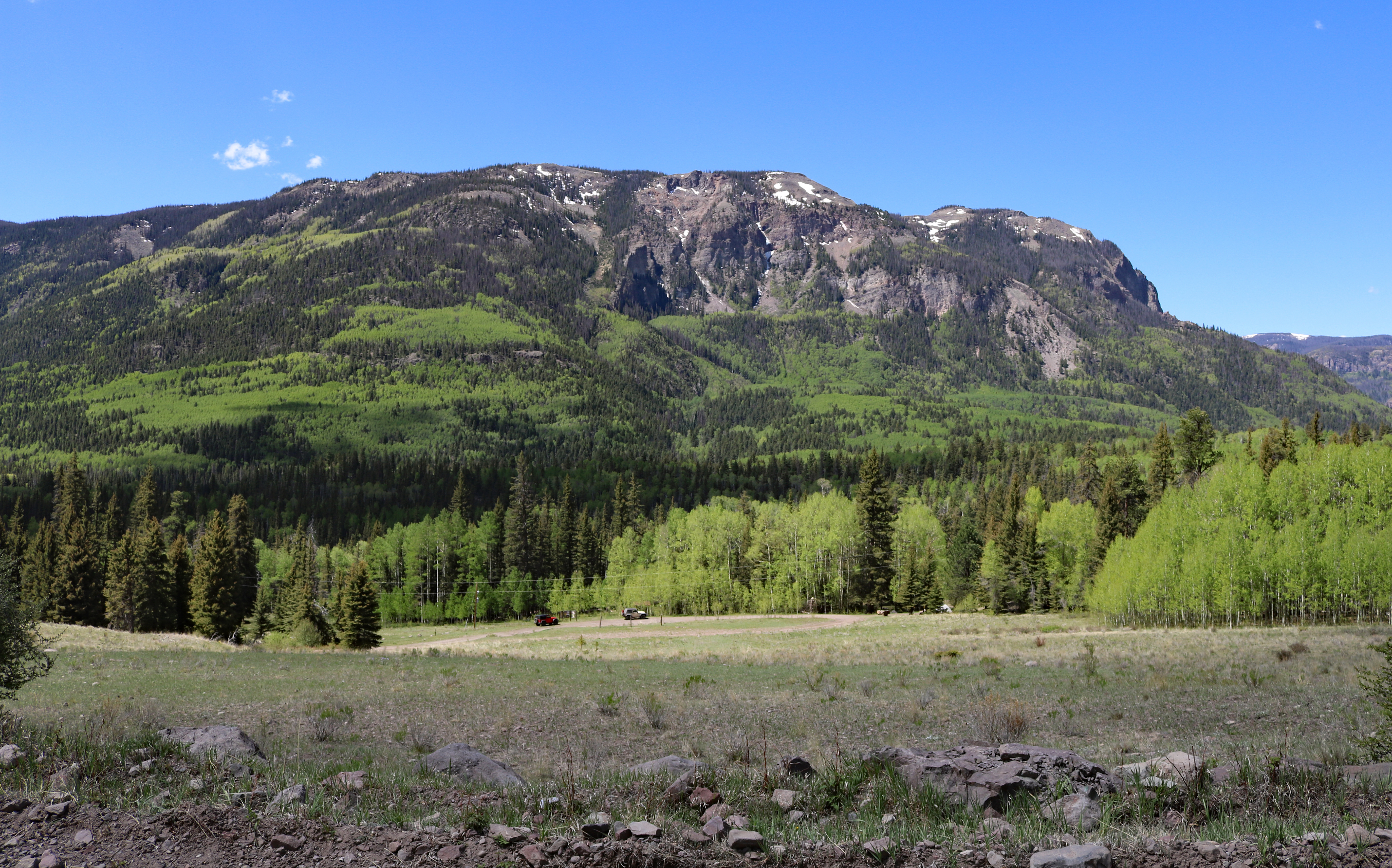 A mountain in the South San Juan Wilderness in southern Colorado. The mountain is near the confluence of the Conejos River and the South Fork Conejos River. The view is from Forest Road 250. The mountain, elevation 10,239 feet (3,121 meters), is apparently unnamed.